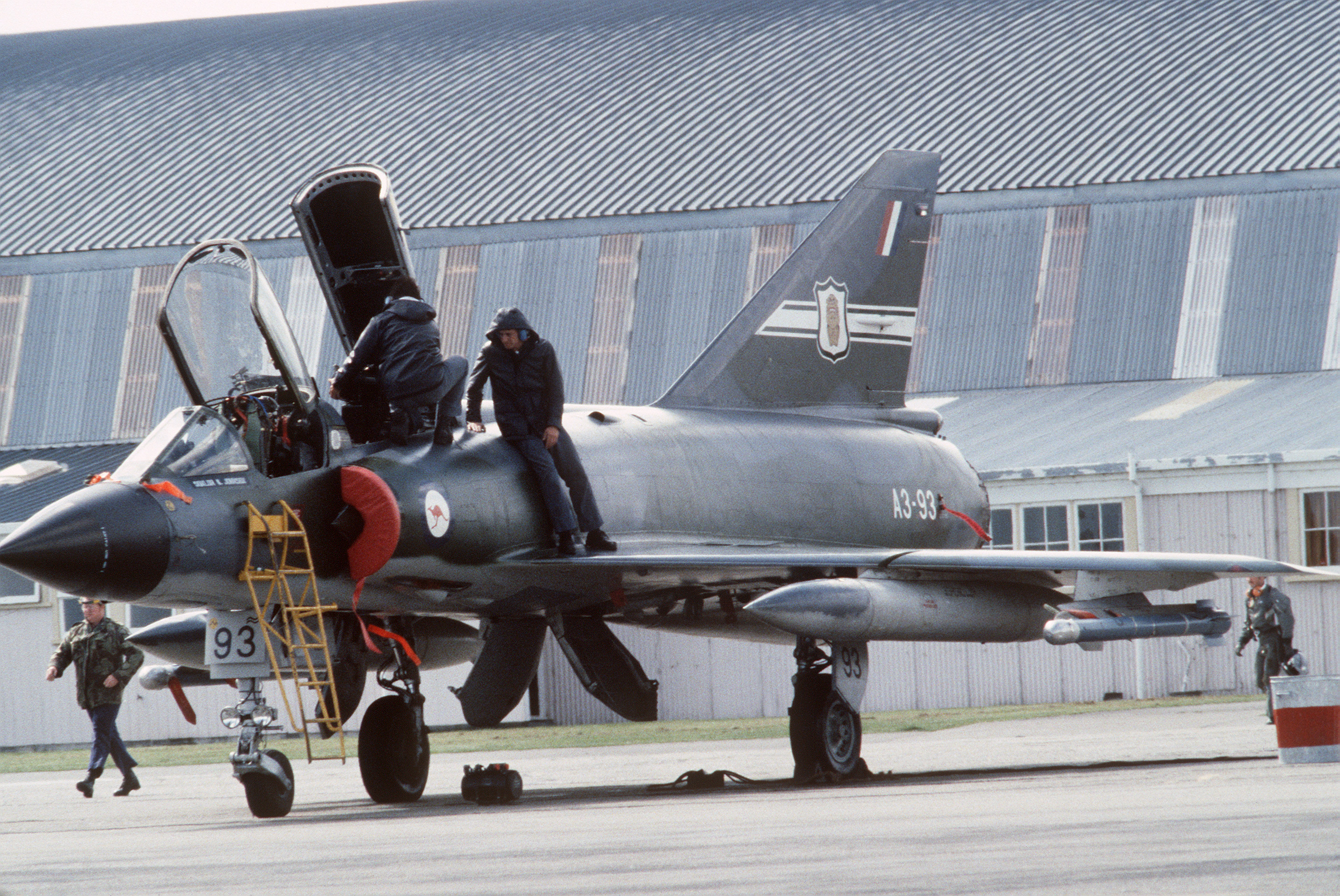 Ground crewmen inspect a MIRAGE III aircraft of the Royal Australian Air Force prior to flight operations during the joint Australian, New Zealand and US (ANZUS) Exercise TRIAD '84.